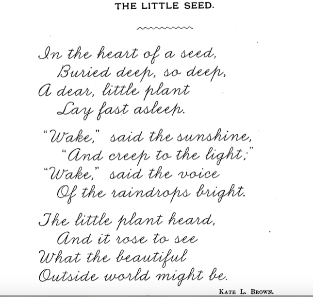 This is a poem "The Little Seed" by Kate Louise Brown, in the children's literature textbook, Stepping Stones to Literature.